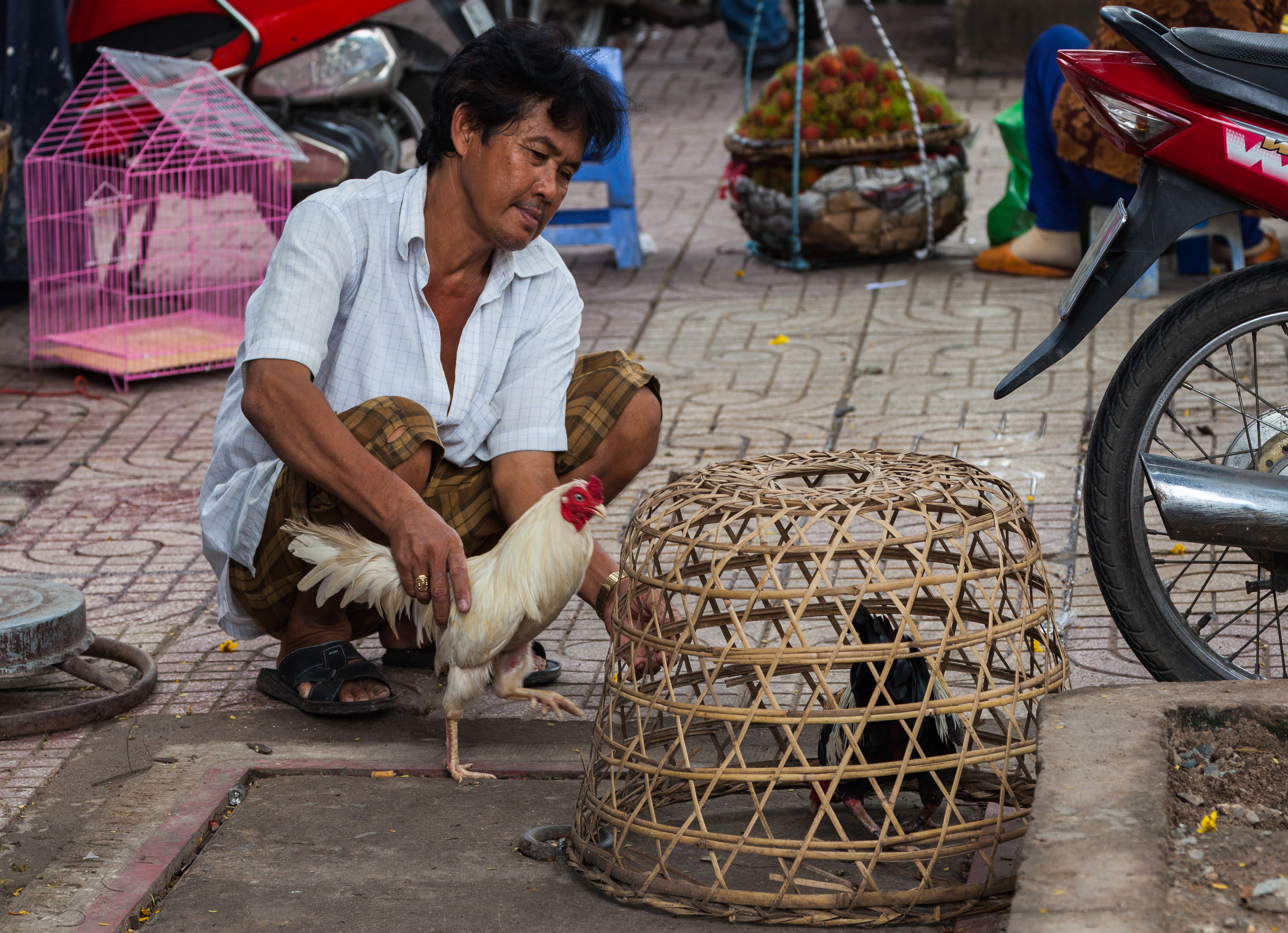 Hen street seller, Ho Chi Minh City, Vietnam